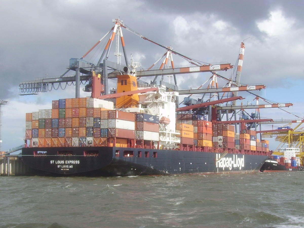 Rear view of the container ship St. Louis Express of the German shipping line Hapag-Lloyd at the container terminal in Bremerhaven, Germany